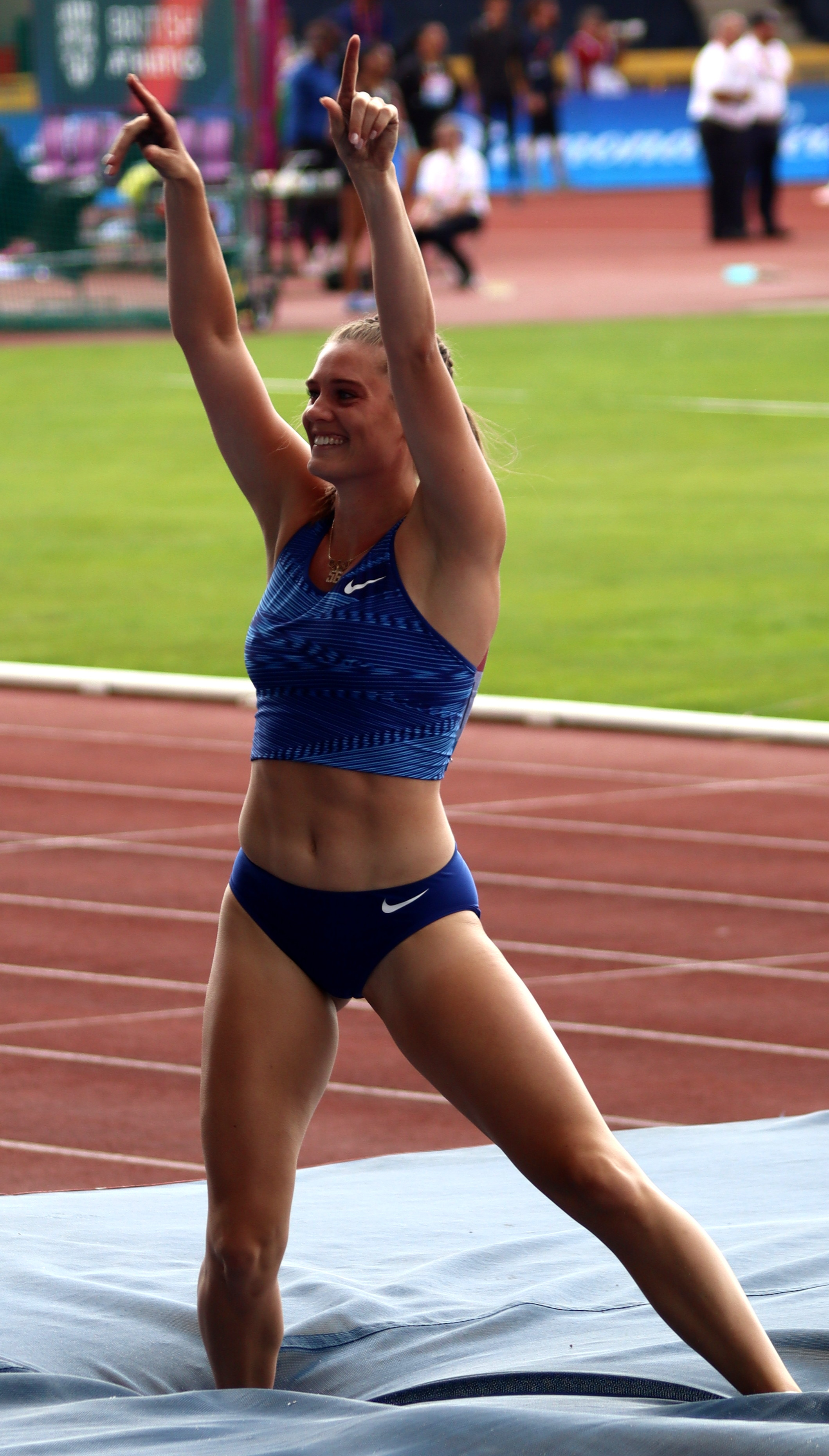 Picture of Canadian pole vaulter Alysha Newman celebrating a successful jump at the 2019 Birmingham Grand Prix